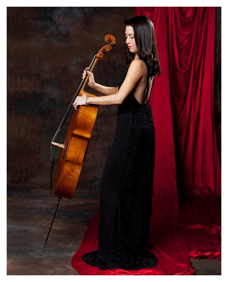 Cooper performing.